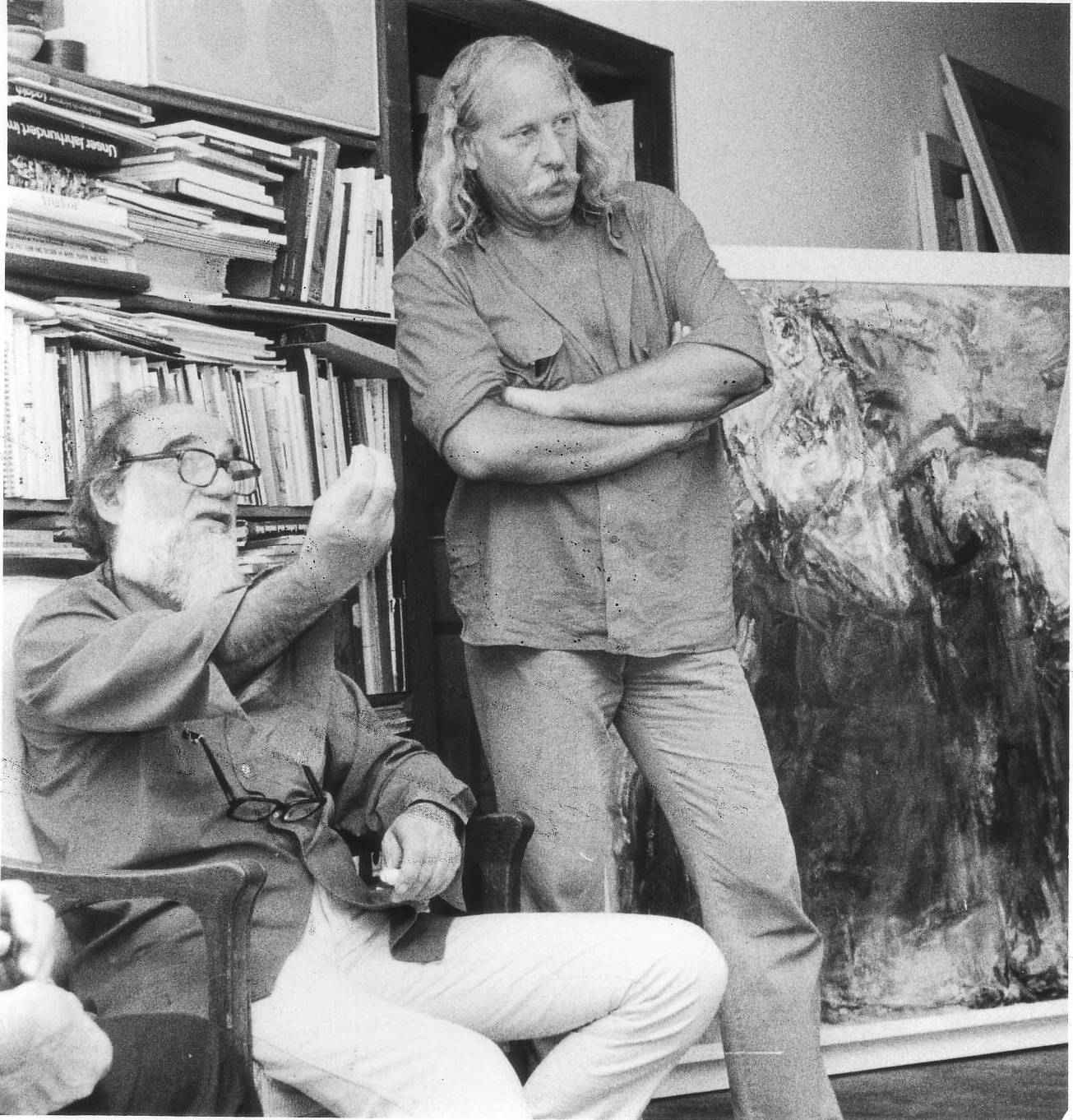 Emilio Vedova on August 4, 1986 in Darmstadt with Pierre Kröger